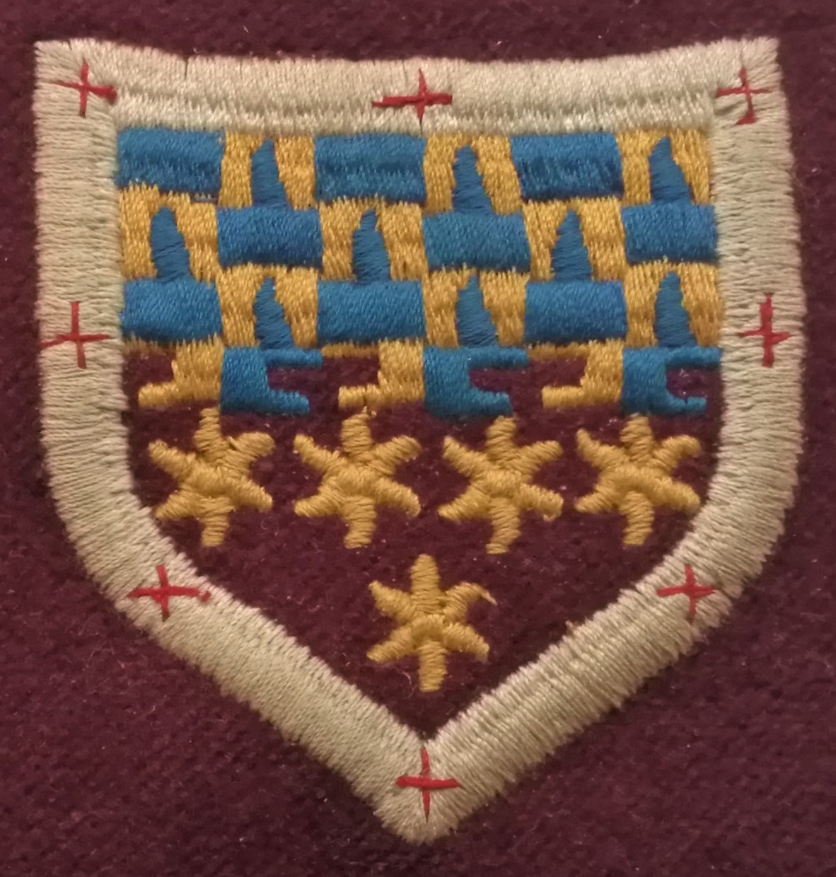 Badge appeared on blazers of boys at Wandsworth School in London from 1950's to 1989 when school closed